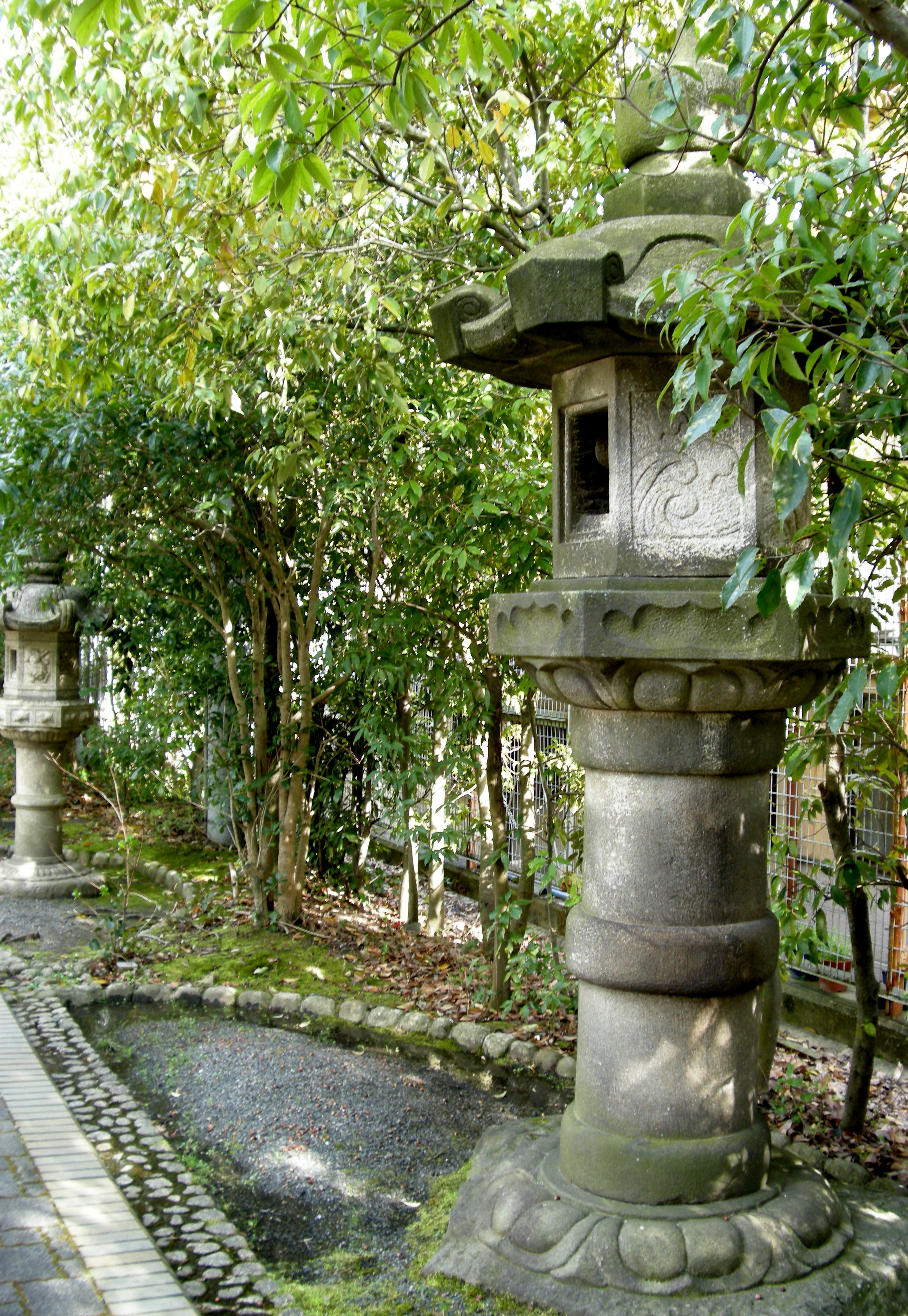 The Stone Lantern Prince Saionji used to own.